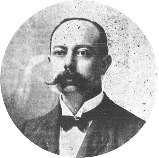 Alexander George Morison Robertson (1867-1947) played a part in the Overthrow of the Kingdom of Hawaii, served in the House of Representatives and the Military Commission during the Republic of Hawaii and after annexation as Chief Justices of the Supreme Court of Hawaii from 1911 to 1918.